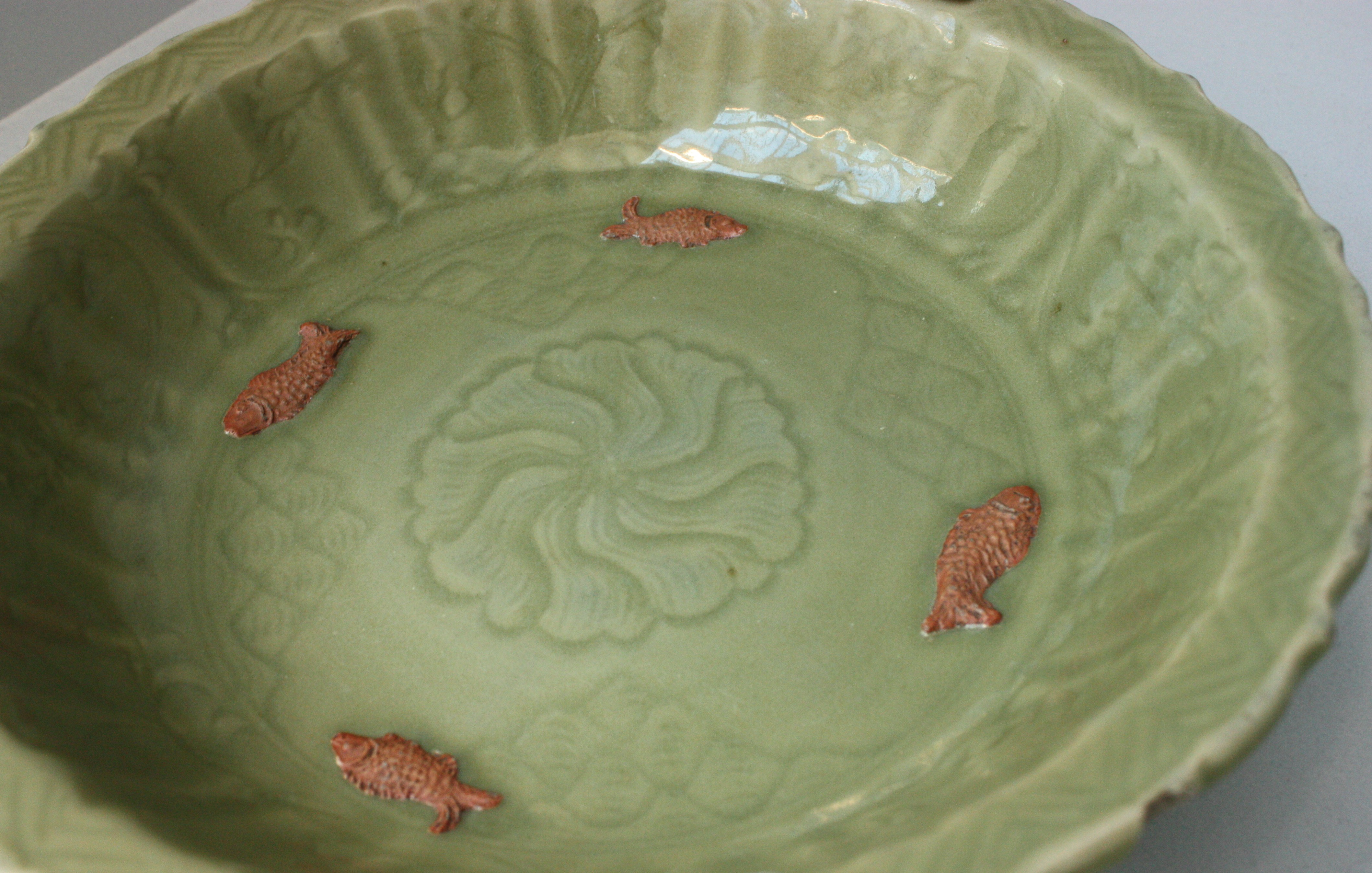 Celadon dish with unglazed fish Southern China, Longquan kilns Yuan dynasty, 1300-1400 Green-glazed stonewares from Zhejiang were the most common type of Chinese ceramics exported to the Middle East before 1400. This dish was thrown and carved before being given a thick green \'celadon\' glaze, which has pooled in the incised decoration and carved fluting. The four fish were made separately in moulds and applied to the unfired glaze. They turned red when the dish was fired. A chip on the rim reveals the contrast between the smooth smooth glaze and the granular texture of the underlying stoneware. Glazed stoneware, reduction fired Arthur Hurst Bequest Collection ID: C.1-1940 This photo was taken as part of Britain Loves Wikipedia in February 2010 by Valerie McGlinchey.